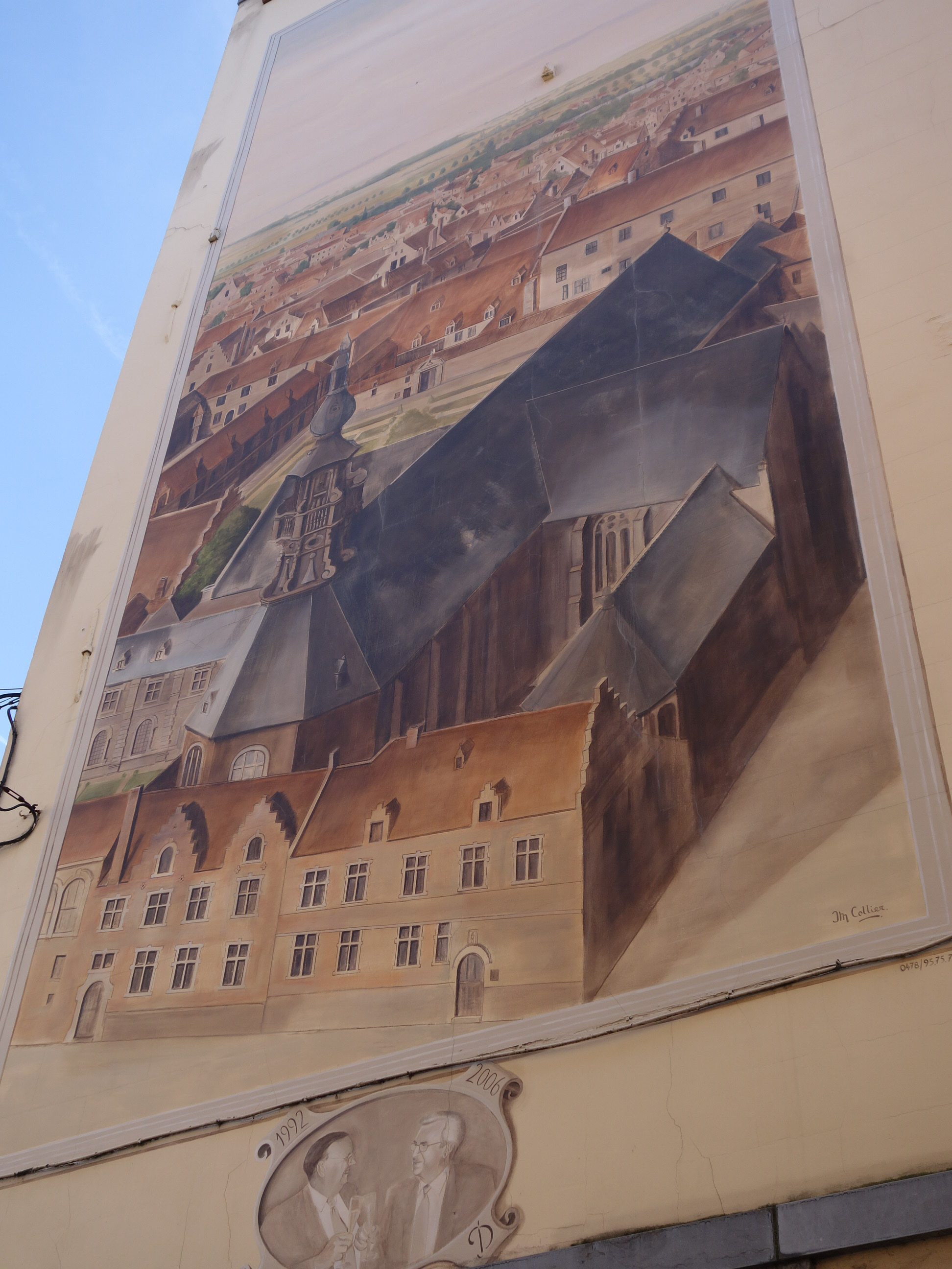 Mural of the former carmelite monastery (corner Lievevrouwbroerstraat/Gootsraat, Brussels)